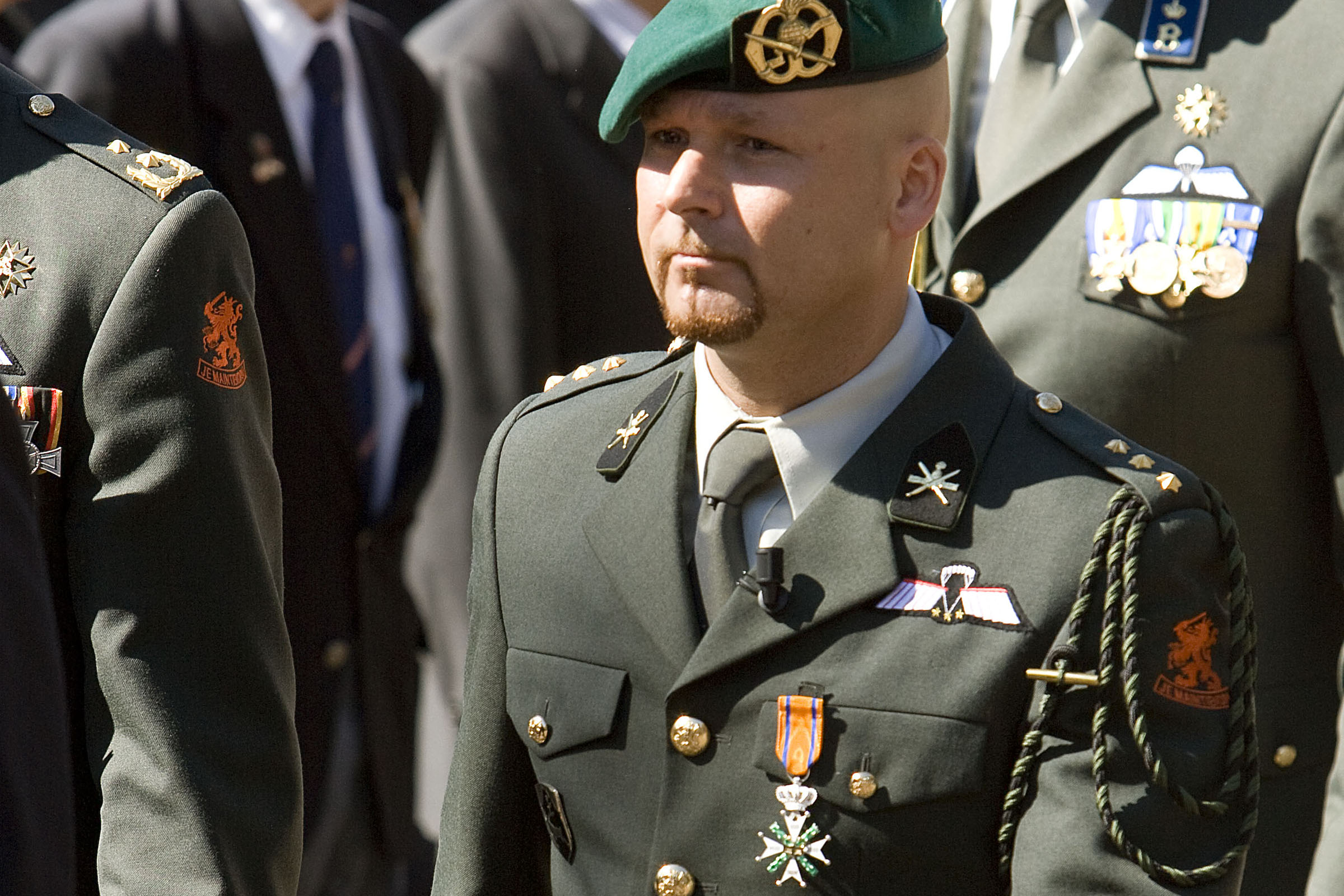 Marco Kroon just after being awarded the Military William Order.